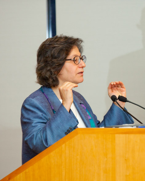 Photograph of Susan Solomon, chemist and research scientist at the National Oceanic and Atmospheric Administration (NOAA), giving the Ullyot Public Affairs Lecture, November 18, 2010, Chemical Heritage Foundation, Philadelphia, PA, USA.